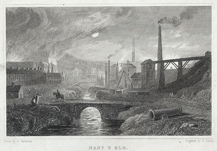 An industrial scene showing ironworks. Smoke can be seen coming out of numerous chimneys and a bridge is in the centre.